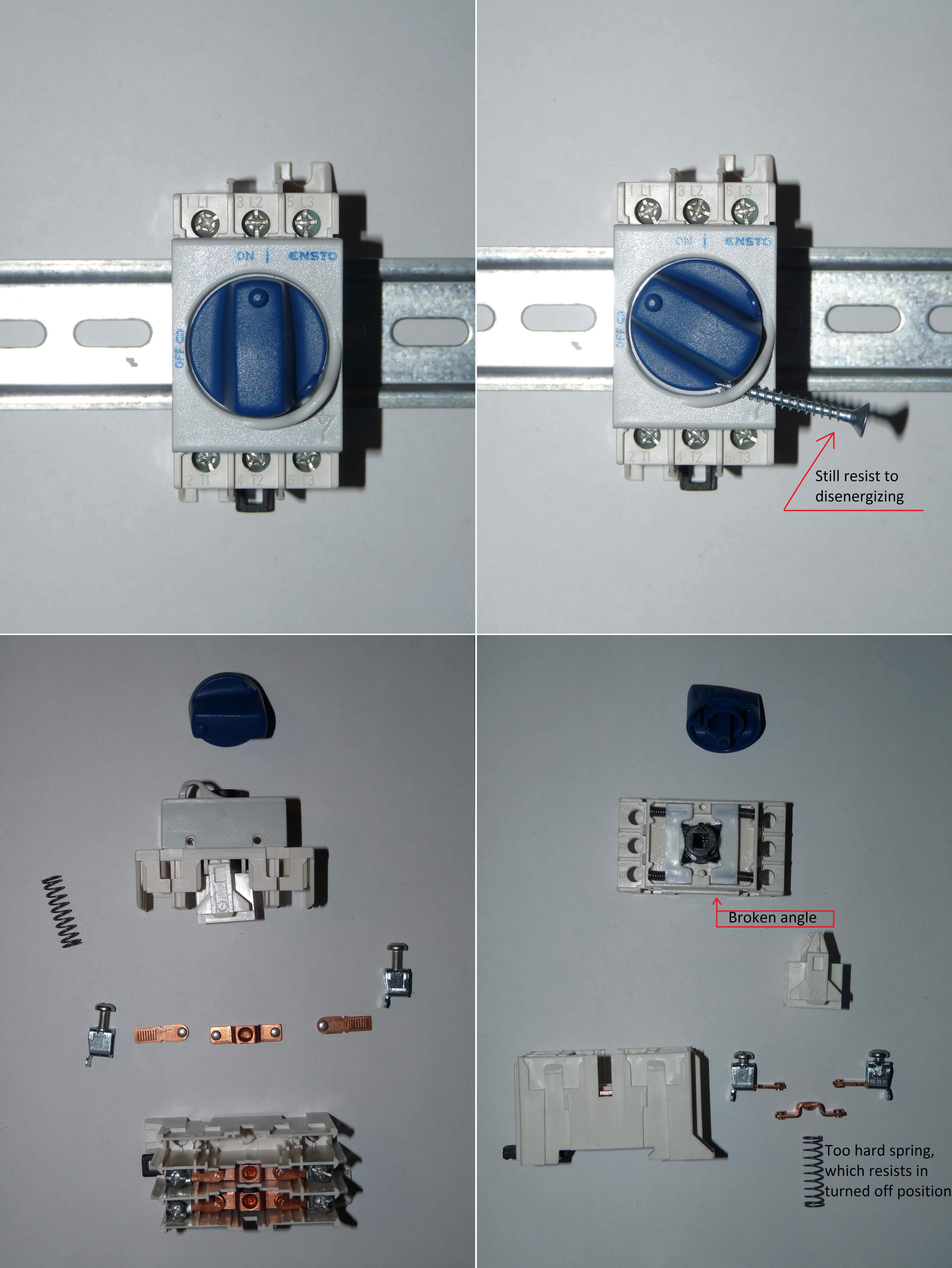 Ensto load switch, which returned me into my schoolyears :-) What had happened? -I was adding new circuit breaker into subpanel, to do this work I was need to disenergize hot busbars before the work. I tried to disenergize circuits by this load switch several times, but it goes to "turned off" position only after I've turned it's actuator by lineman's pliers. I didn't attach any importance to this and continued to work unaware of the defect of this load switch. After some minutes, I've heard click on opposite side and my hands felt quite strong spasms. I jerked my hands from wires and the same time decided to look what had happened. This load switch energized circuits itself without any extraneous forces! After this I decided to investigate, why this load switch energizes circuits itself. After I'd disassembled load switch, I've found there 2 independent switching mechanisms with 2 independent faults.